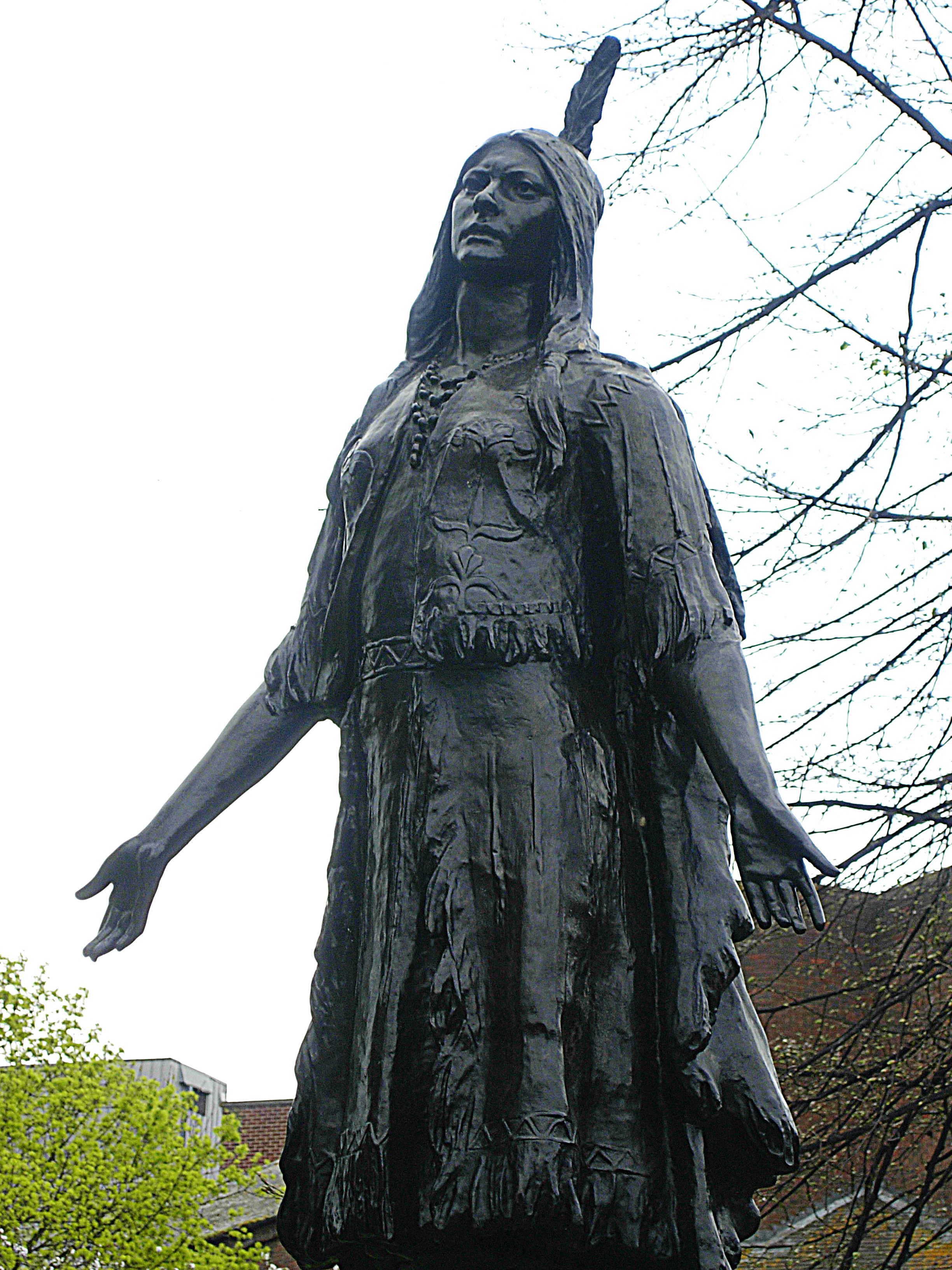 Statue of Pocahontas in St George's Church, Gravesend, Kent UK